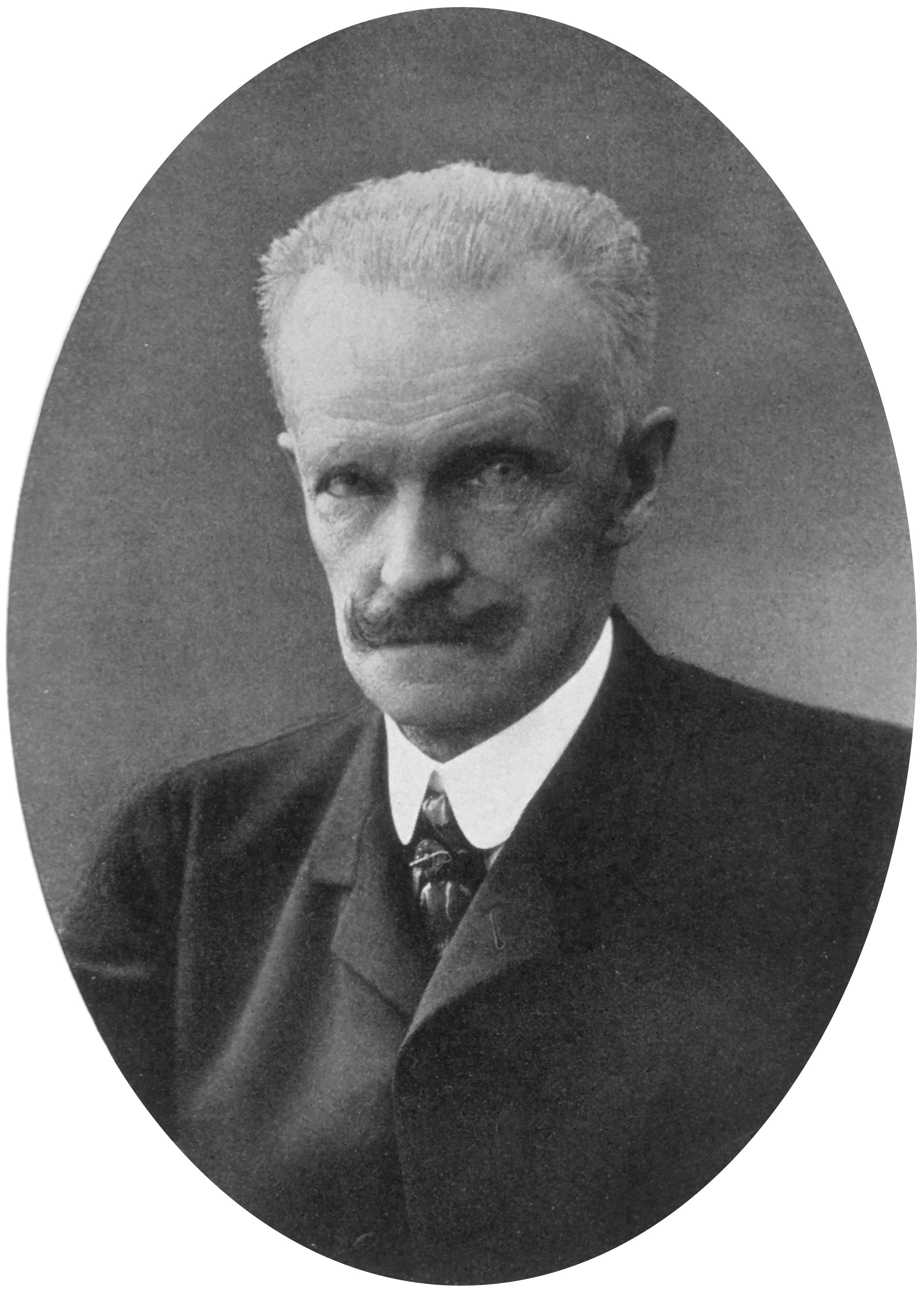 Duke Karl-Theodor in Bavaria (9 August 1839 – 30 November 1909)